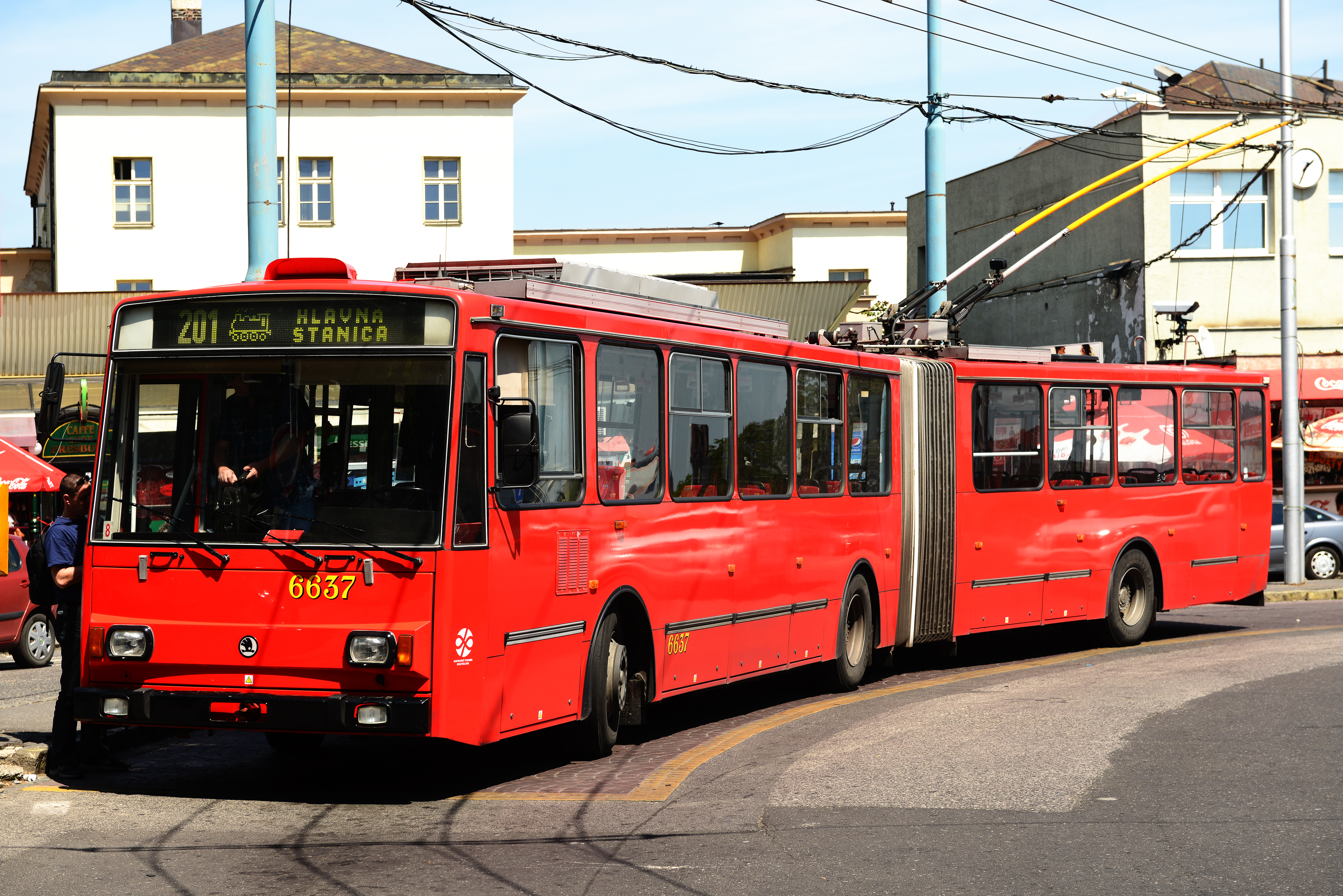 Trolleybus Škoda 15Tr at Main Staition of Bratislava, Slovakia